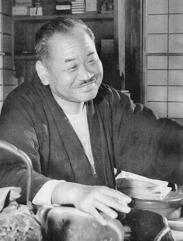 Kozen Hirokawa